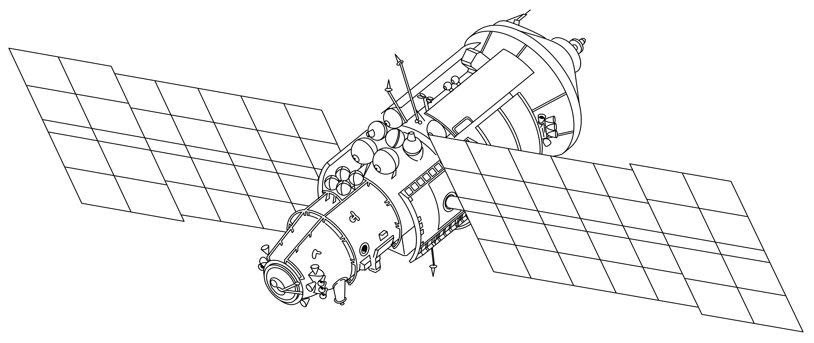 The Kvant-2 module of the Soviet/Russian space station Mir, which housed an EVA airlock (hatch visible at left).